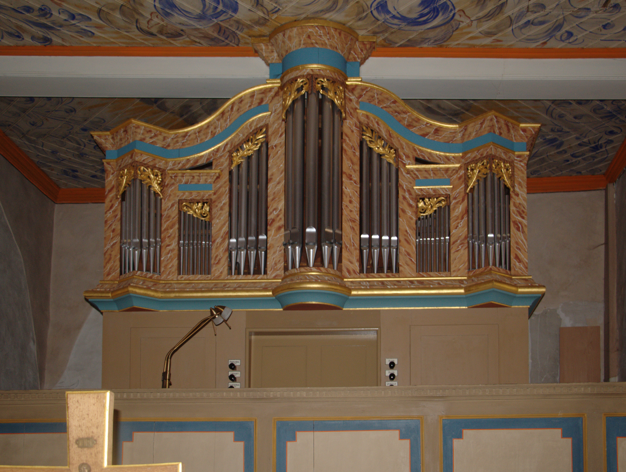 Protestant Church (Portal) in Pfordt, Schlitz, Hesse, Germany